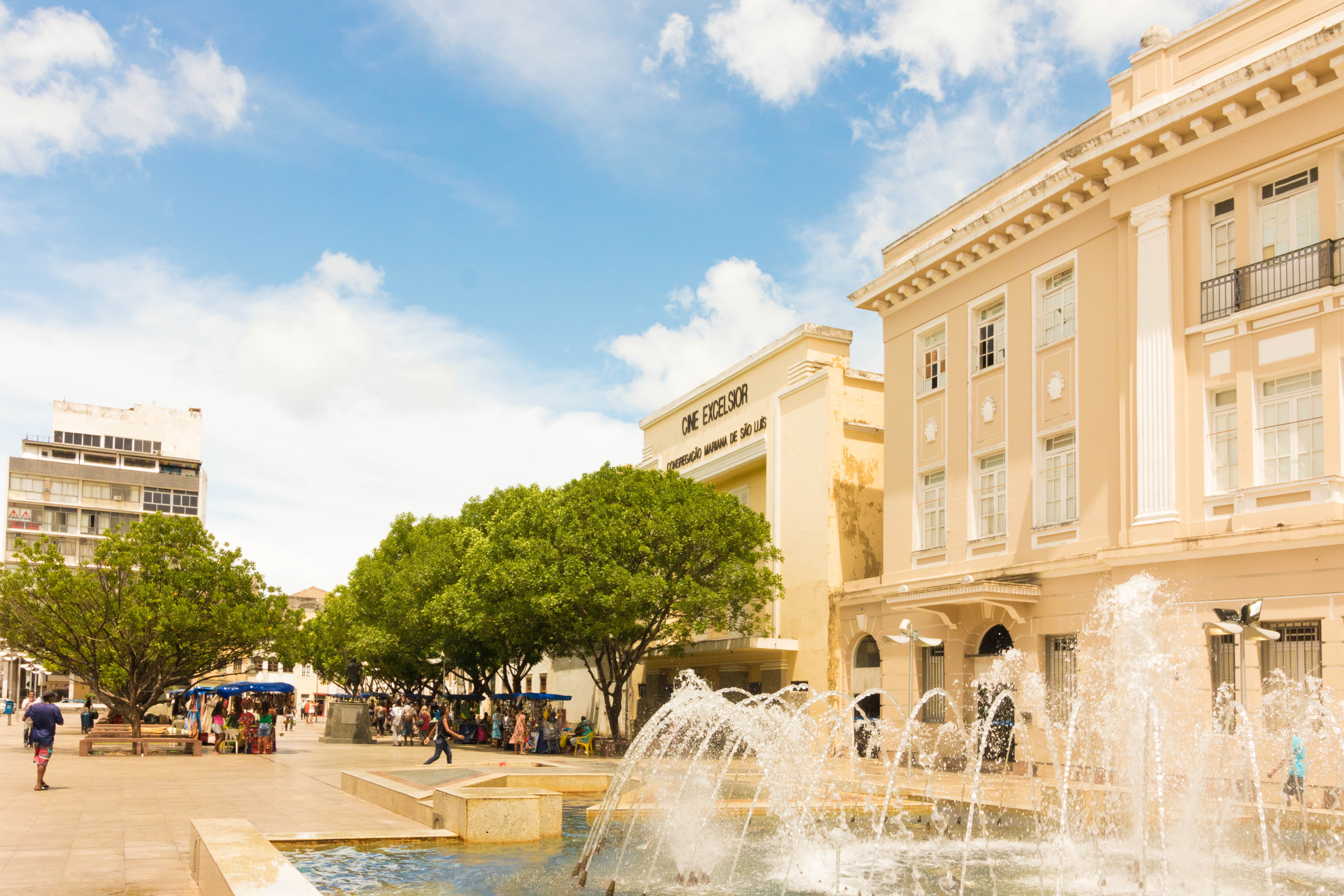 Praça da Sé, Salvador, Bahia, Brazil.